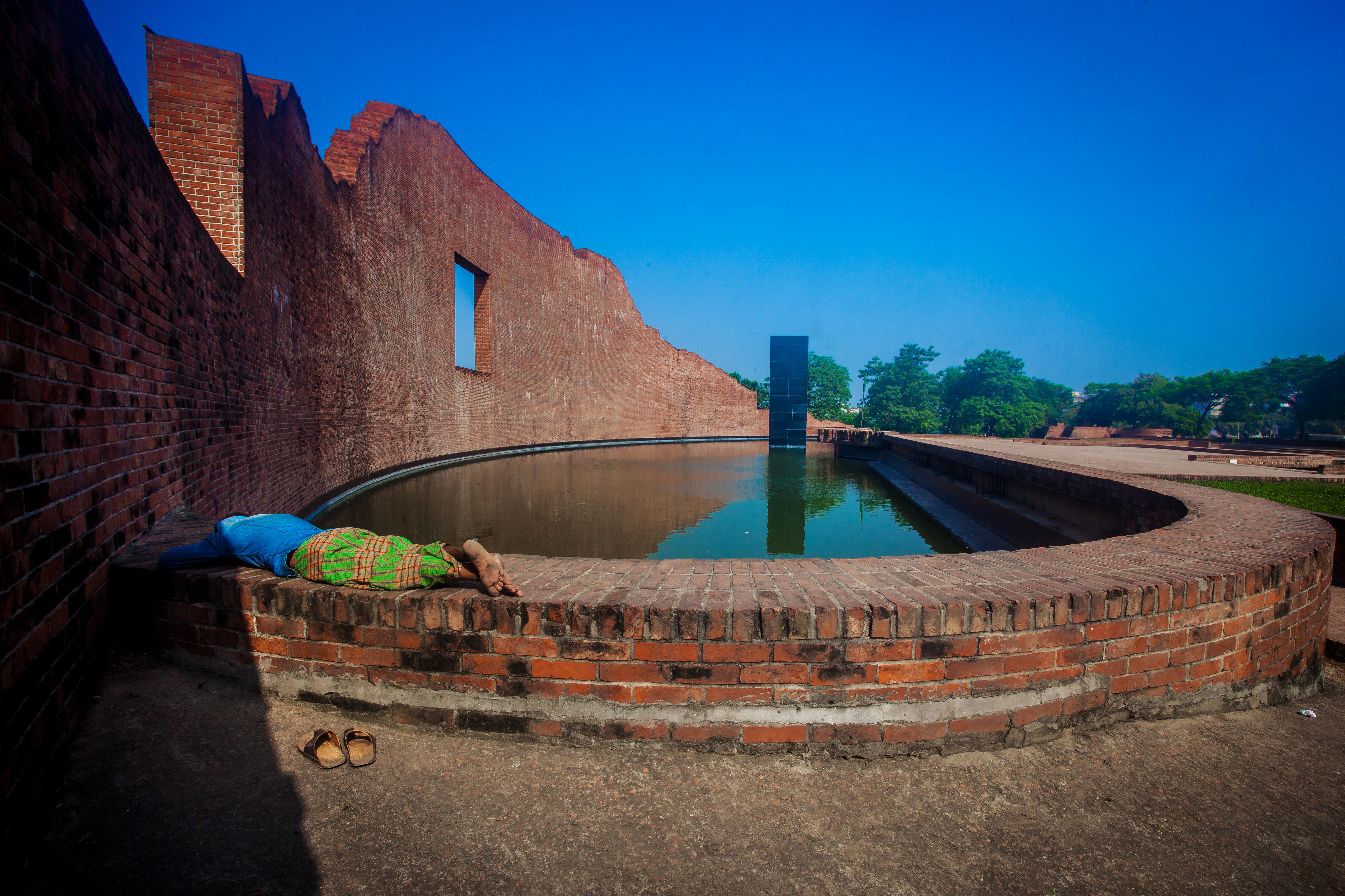 Martyred Intellectuals Memorial, Dhaka, Bangladesh